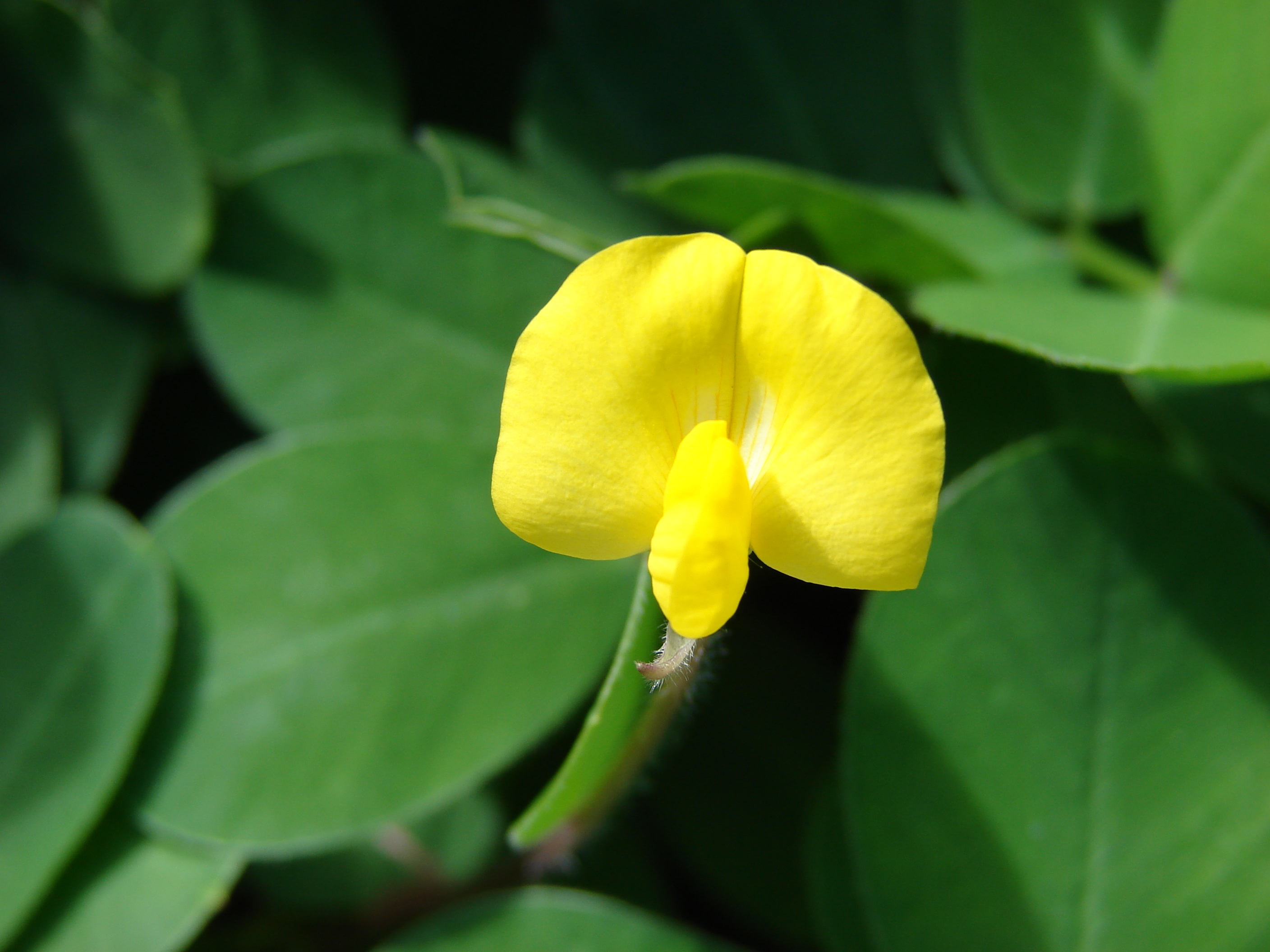 Arachis pintoi (flower). Location: Maui, Kokomo Rd Haiku